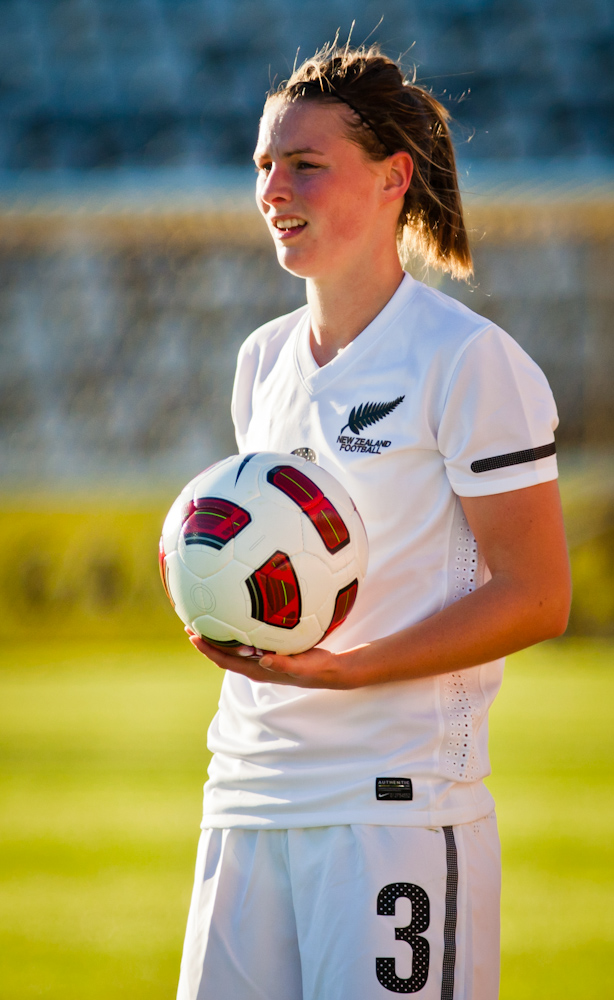 Anna Green playing for the New Zealand women's national football team against Australia.